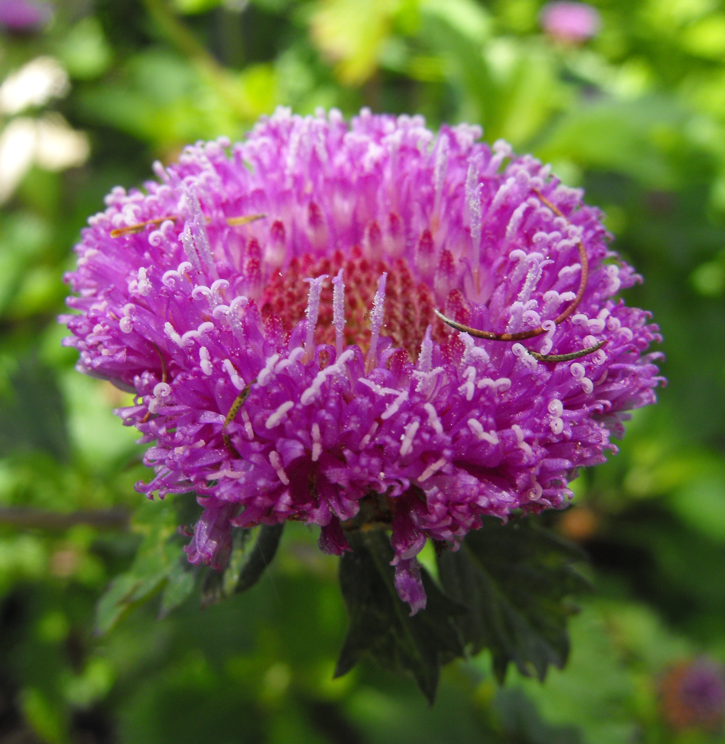 Centratherum intermedium at San Diego Botanic Garden in Encinitas, California, USA. Identified by sign.